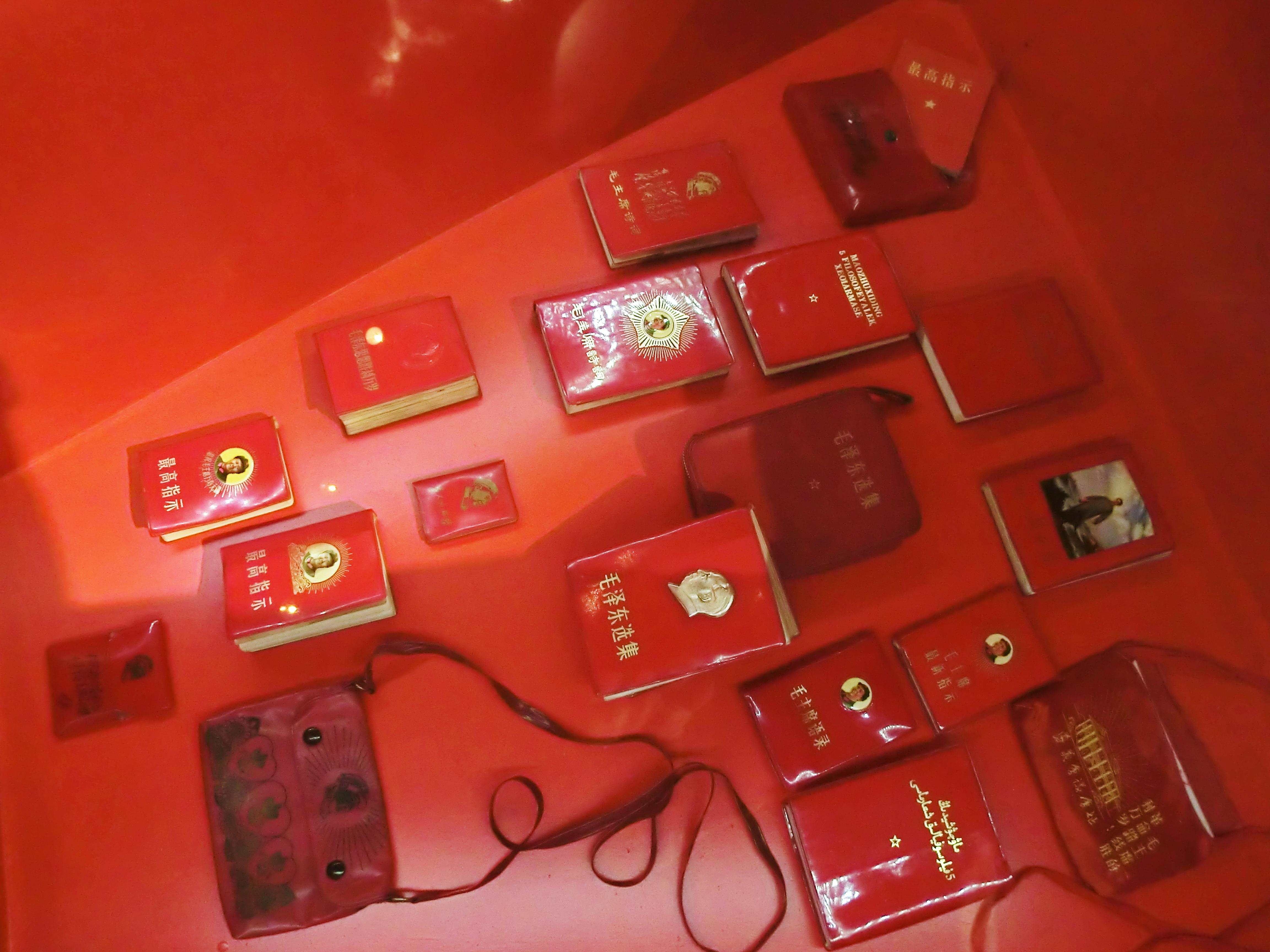 Words of Chairman Mao, Exhibition, Übersee-Museum, Bremen, Germany